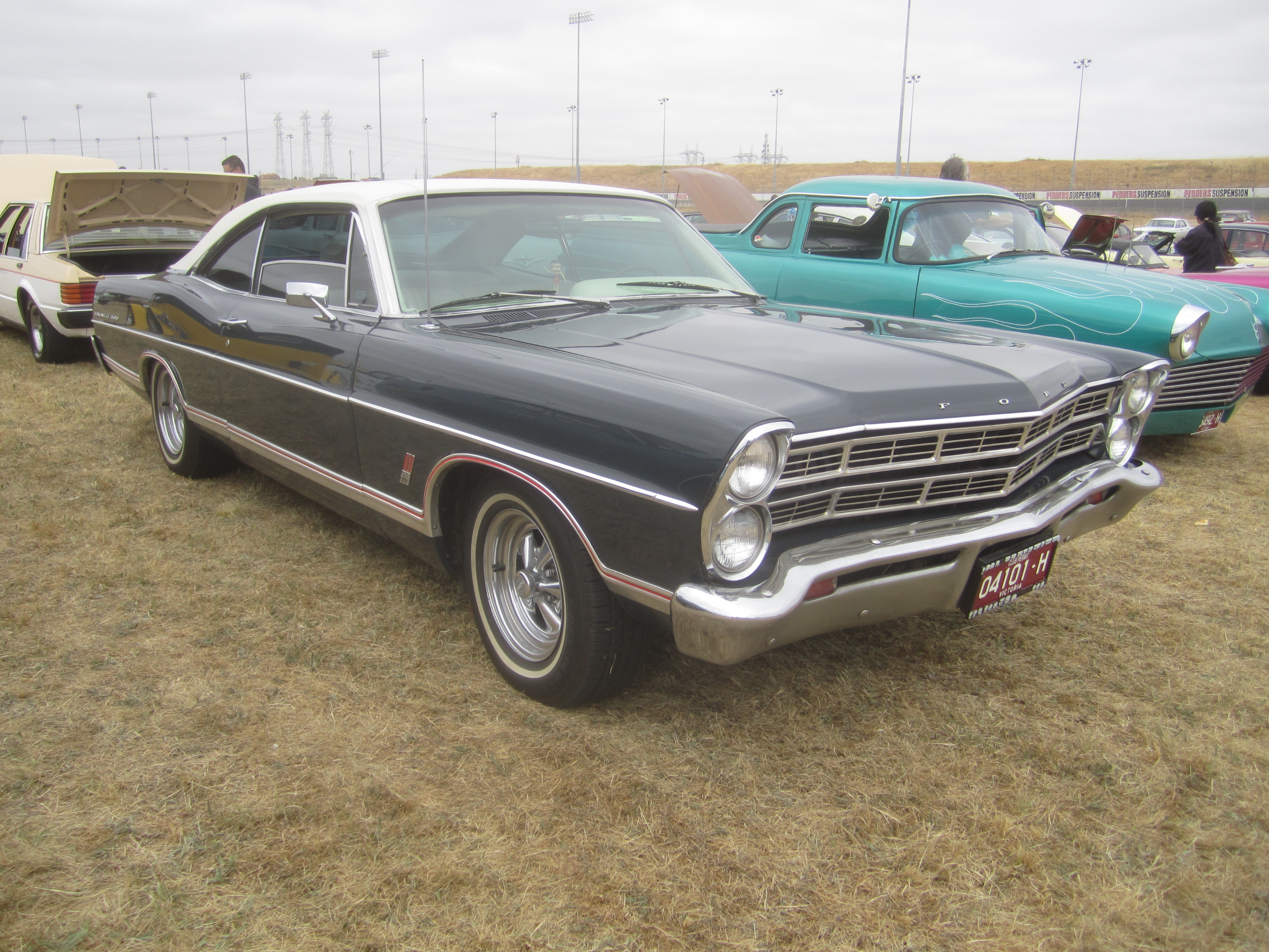 With the Fairlane shifted to a new intermediate-sized model range for 1962, the full-size Ford lineup consisted just of the Galaxie. 1966 saw another complete redesign looking bulkier and featuring vertically stacked headlights and new rear suspension. 1967 got a mild facelift and some safety upgrades Available in Sedan, Hardtop and Convertible. Models; Custom, Custom 500, LTD and 7-litre Engines; 240 cu in 6, 289, 352 and 429 V8s